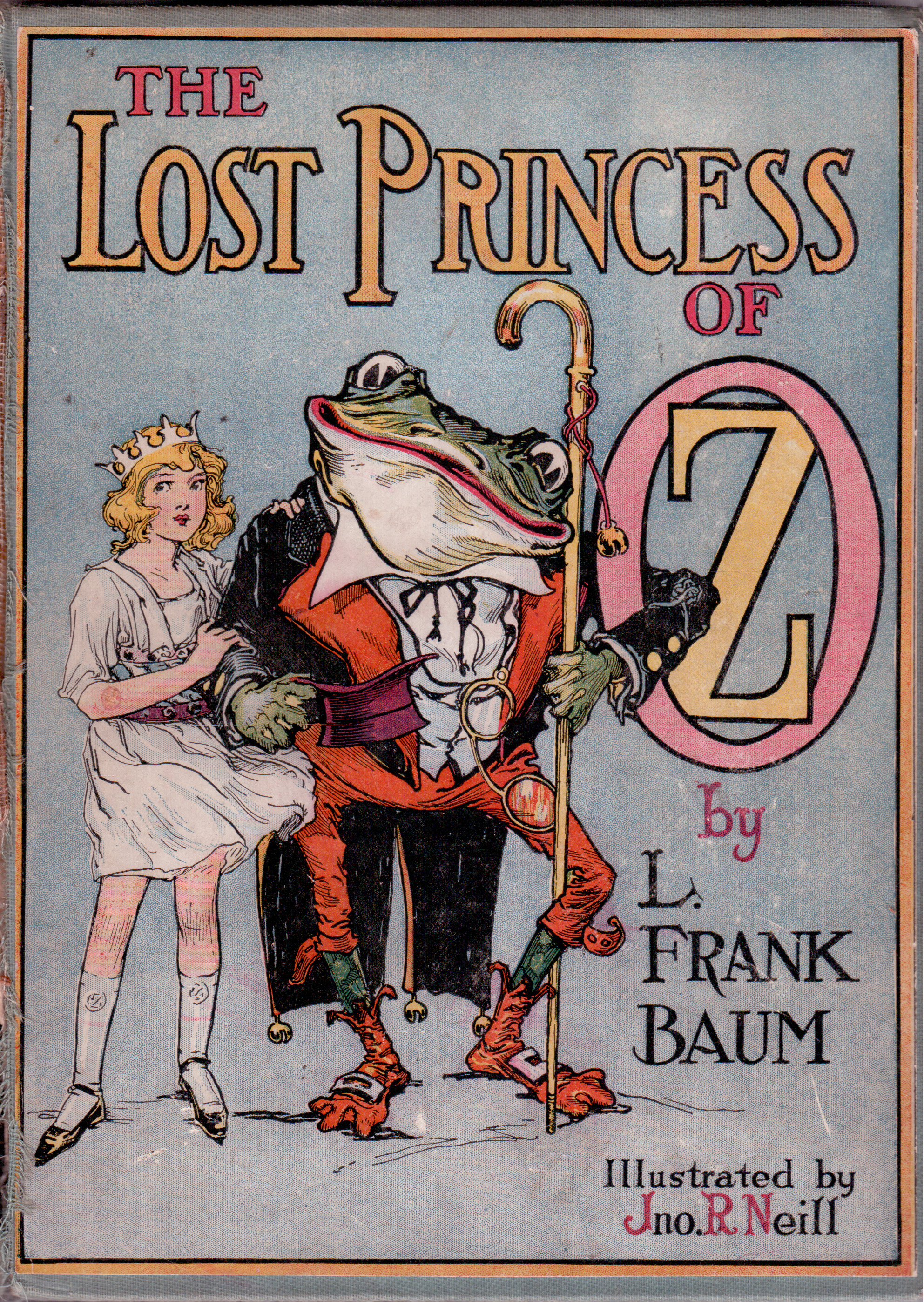 The Lost Princess of Oz by L. Frank Baum, Illustrated by John. R Neill, Copyright The Reilly & Britton Co., Chicago, 1917 Flickr data on 2011-08-23: Tags: public domain, book, vintage, illustration, drawing, OZ, The Lost Princess of OZ, 1917 License: CC BY 2.0 User: perpetualplum Sue Clark